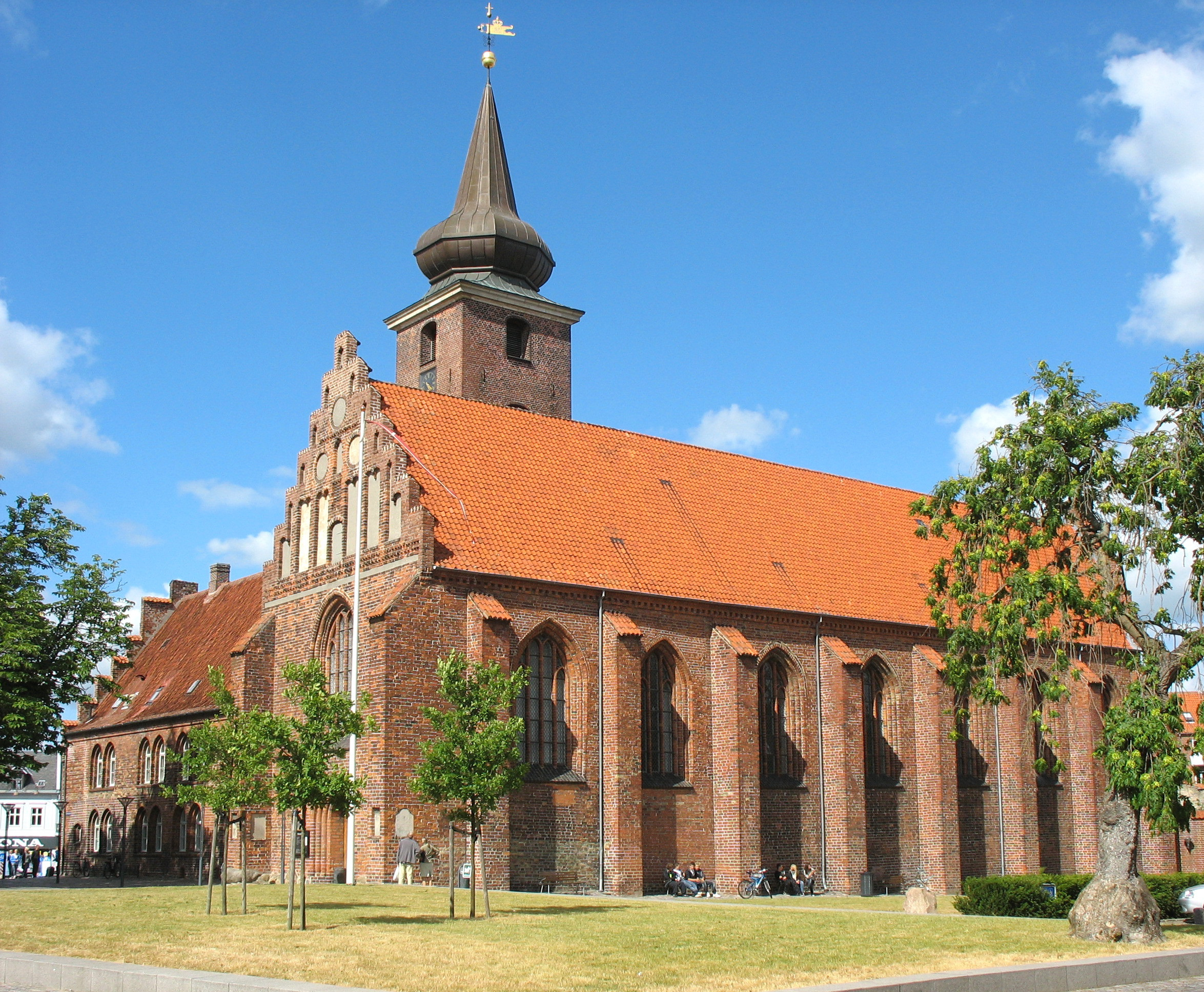 The old abbey church "Klosterkirken" in the town "Nykøbing Falster". It is located on the island Falster in east Denmark.